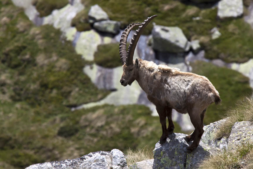 An Alpine Ibex in Ceresole Reale, Turin Province, Italy.